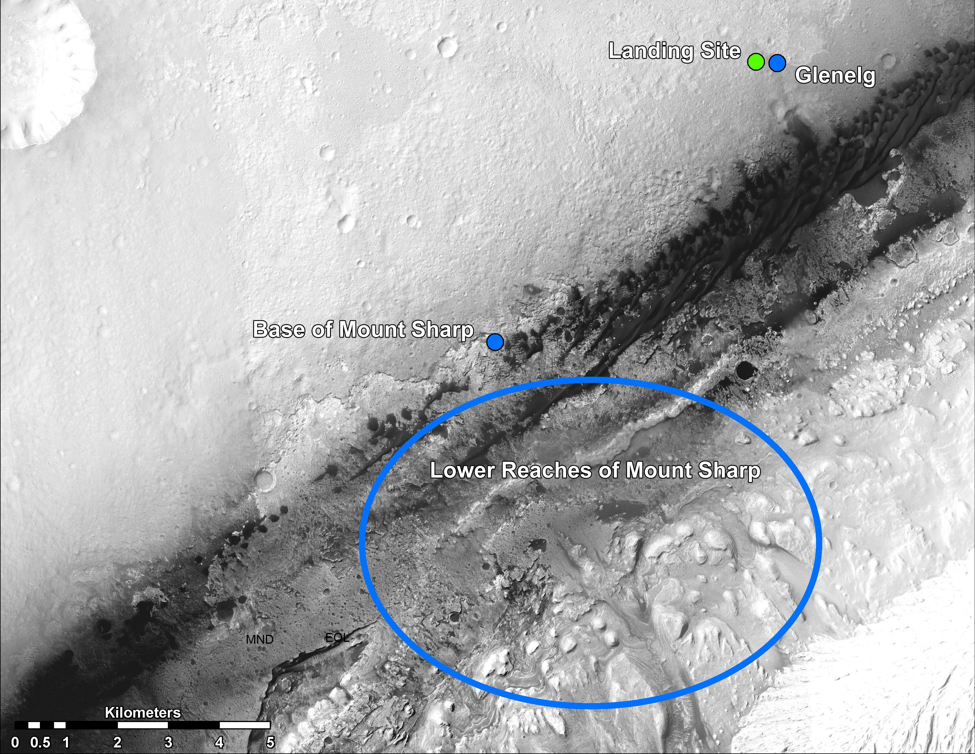 08.17.2012 Martian Treasure Map This image shows the landing site of NASA's Curiosity rover and destinations scientists want to investigate. Curiosity landed inside Gale Crater on Mars on Aug. 5 PDT (Aug. 6 EDT) at the green dot, within the Yellowknife quadrangle. The team has chosen for it to move toward the region marked by a blue dot that is nicknamed Glenelg. That area marks the intersection of three kinds of terrain. The science team thought the name Glenelg was appropriate because, if Curiosity traveled there, it would visit it twice -- both coming and going -- and the word Glenelg is a palindrome. Then, the rover will aim to drive to the blue spot marked "Base of Mt. Sharp", which is a natural break in the dunes that will allow Curiosity to begin scaling the lower reaches of Mount Sharp. At the base of Mt. Sharp are layered buttes and mesas that scientists hope will reveal the area's geological history. These annotations have been made on top of an image acquired by the High Resolution Imaging Science Experiment (HiRISE) camera on NASA's Mars Reconnaissance Orbiter.